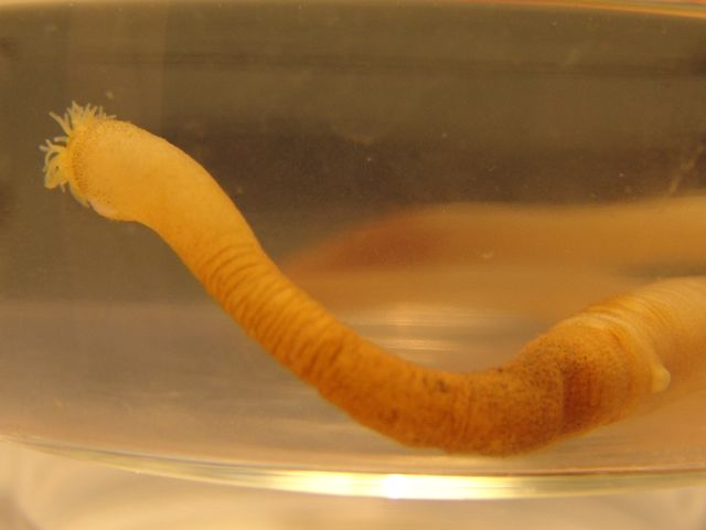 found on Greater Cumbrae, Scotland